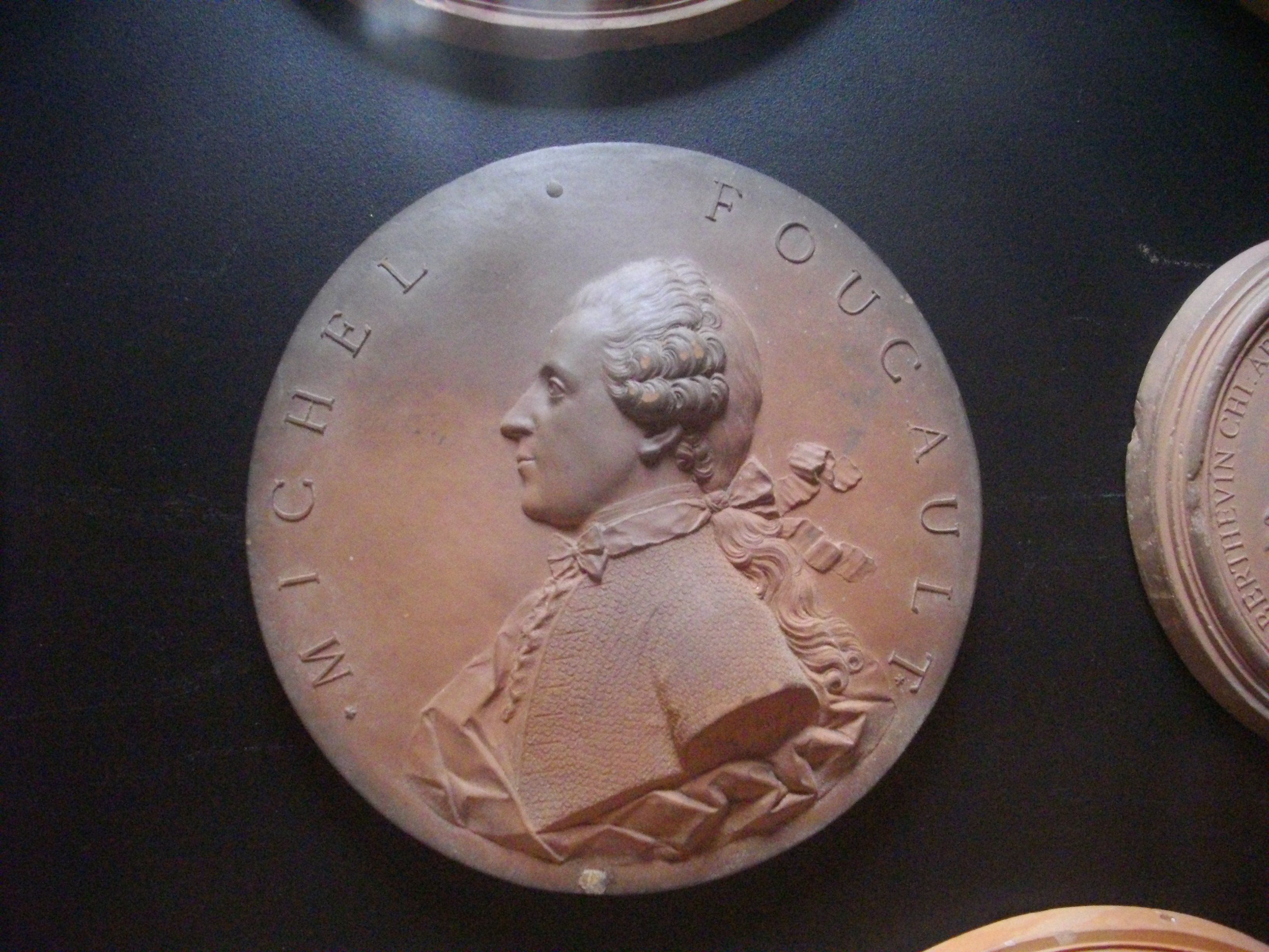 Chaumont-sur-Loire castle (Loir-et-Cher, France), king's room .